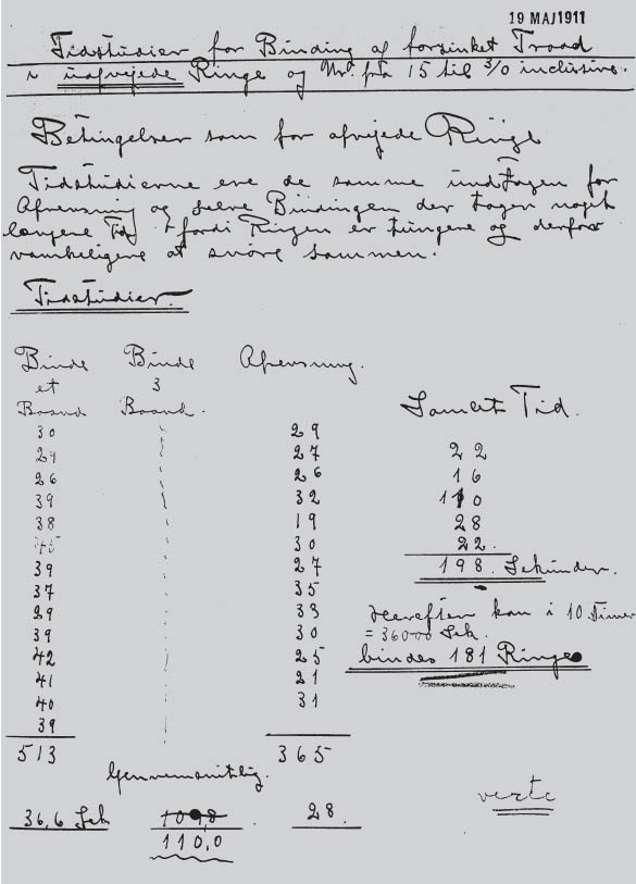 The perhaps first study of time in Denmark. In may 1911...